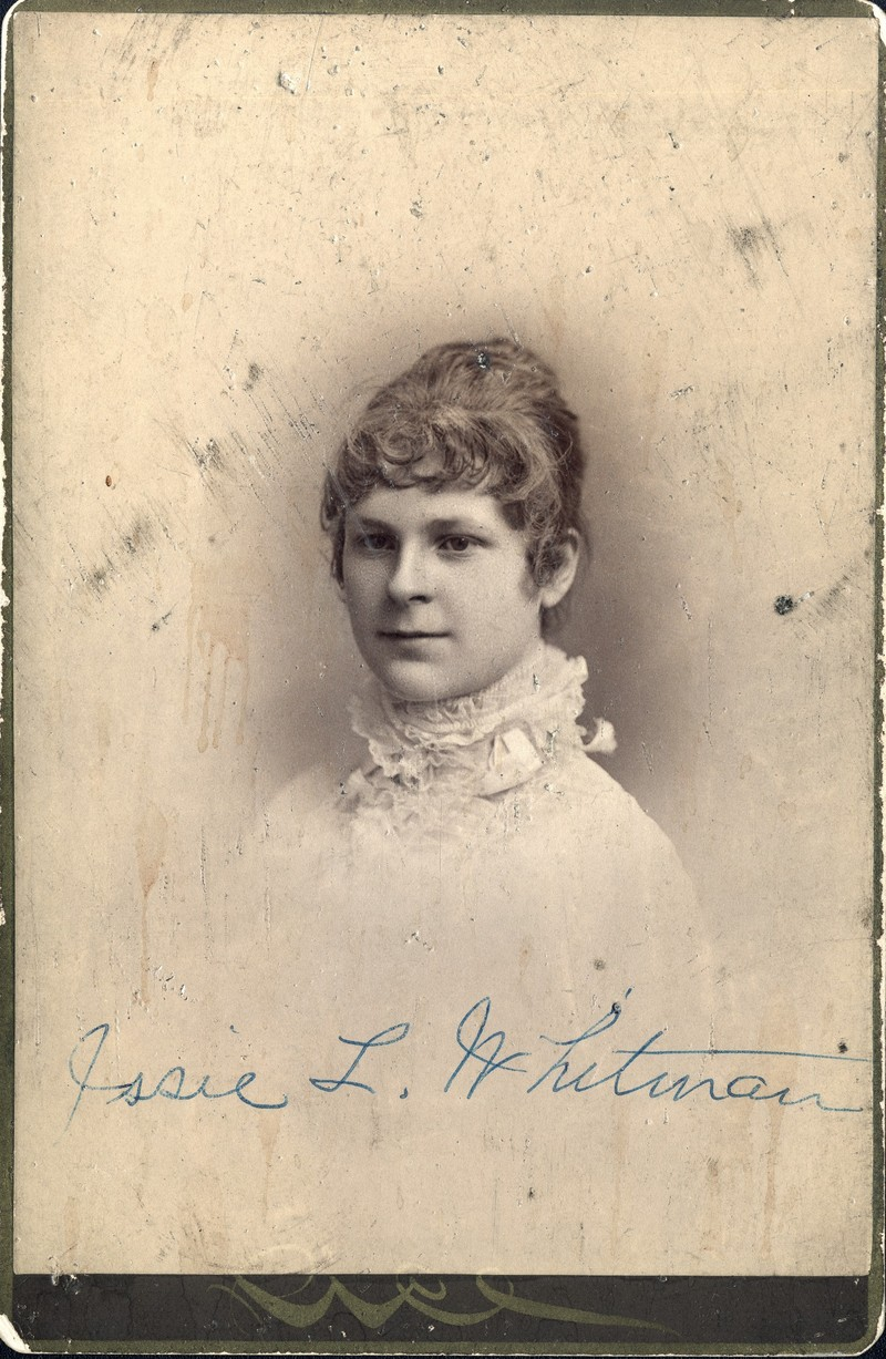 Photograph of Jessie Louisa Whitman